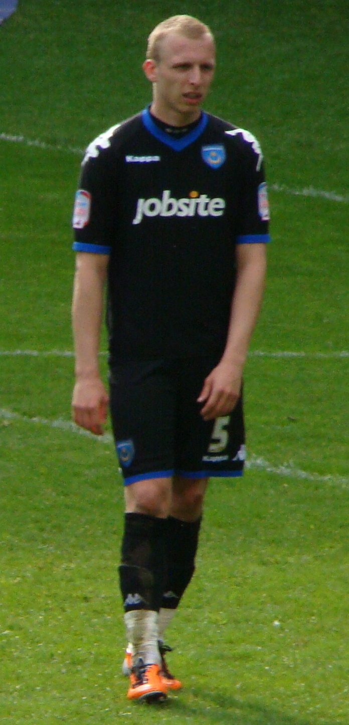 16/04/11 Cardiff V Portsmouth, Championship, Cardiff City Stadium, Cardiff, Wales